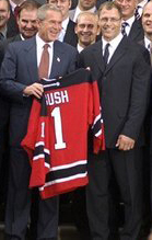 Cropped from Image:Stanley Cup Bush Devils.jpg to show Scott Stevens